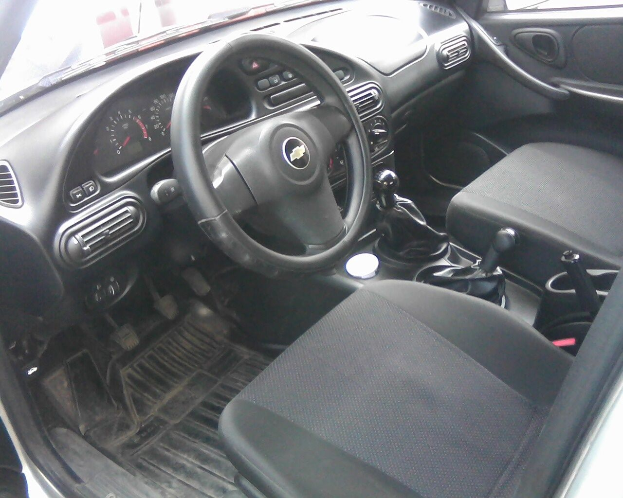 Chevrolet Niva